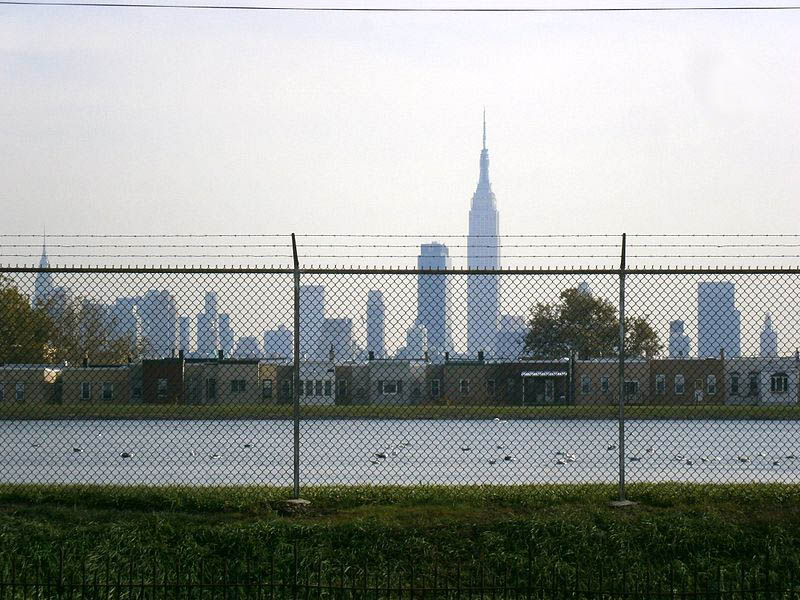 Hackensack Reservoir #2 - Weehawken Heights -Palisade Avenue looking east NYC skyline